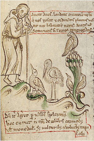 Francis of Assisi